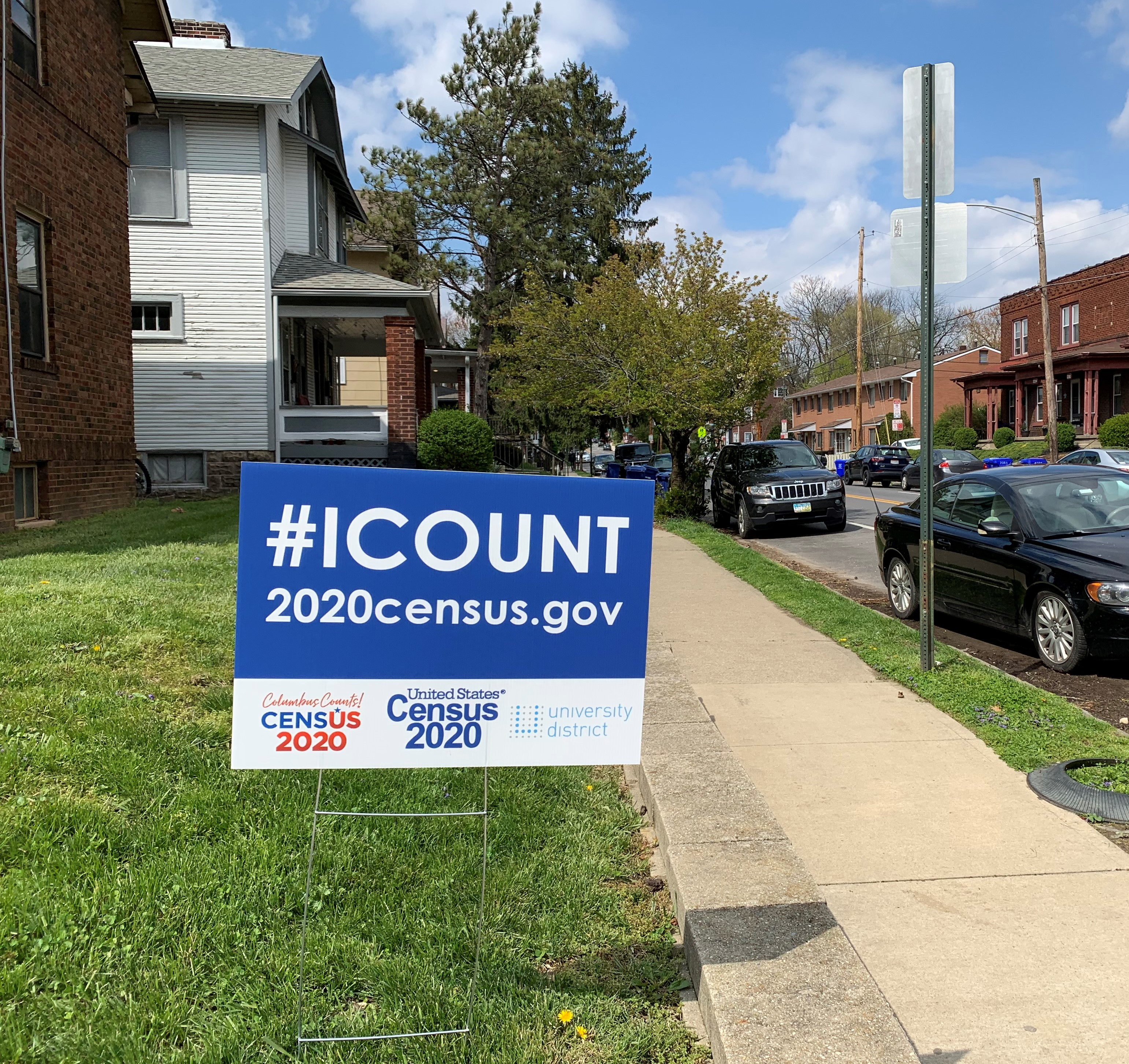 A sign sponsored by the 2020 Census, City of Columbus, and University District encouraging responses. Photo taken on the corner of Neil and Northwood Avenues near Ohio State in April 2020.